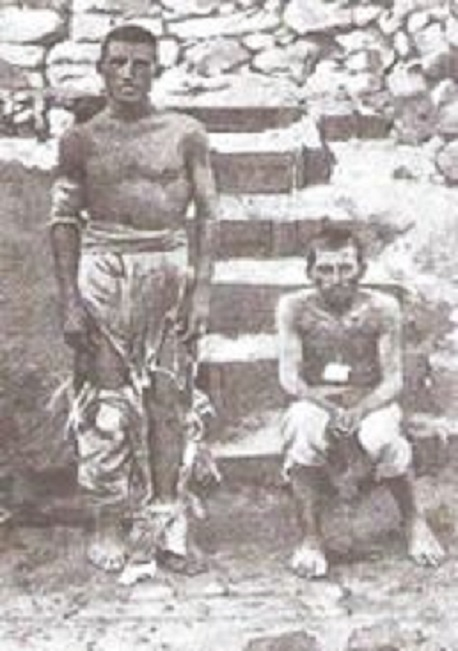 Two Italian soldiers survivors Battle of Adua